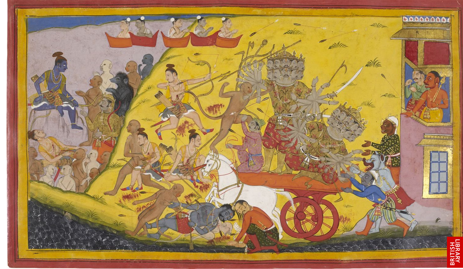 Ravana has sent out his mightiest warriors to fight the monkey leaders in single combat, but each in turn has been destroyed. He himself took the field, fighting many of the greatest warriors in turn, until he was faced by Laksmana. Pierced in his breast by Ravana's spear, Laksmana falls unconscious to the ground. Meanwhile Hanuman rushes to Ravana's chariot and strikes him with his fist. Ravana reels from this great buffet and falls in a faint. Hanuman picks up Laksmana and carries him tenderly off the battlefield to Rama, at whose feet he lays him down.